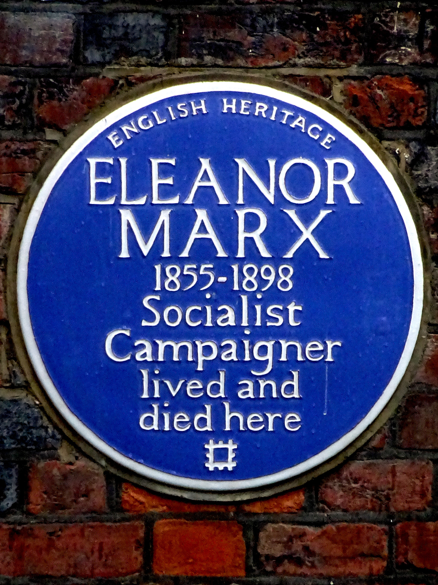 Blue plaque erected in 2008 by English Heritage at 7 Jews Walk, Sydenham, London SE26 6PJ, London Borough of Lewisham